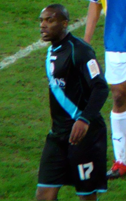 Dany N'Guessan. Image cropped from original at Flickr.